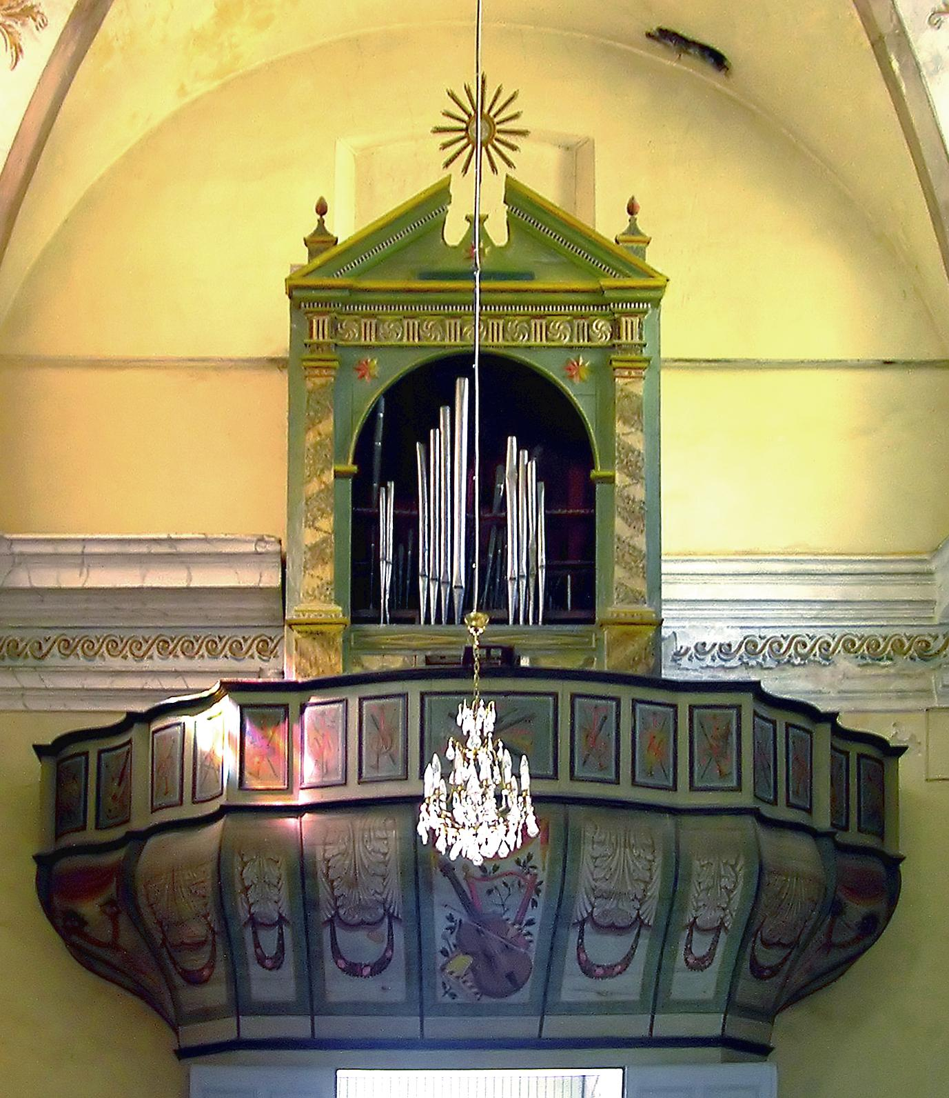 Organ in Lumio, France.